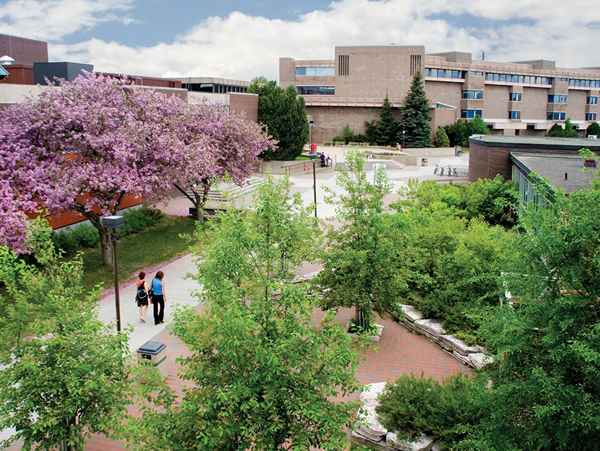 Lakehead University campus in the Summer